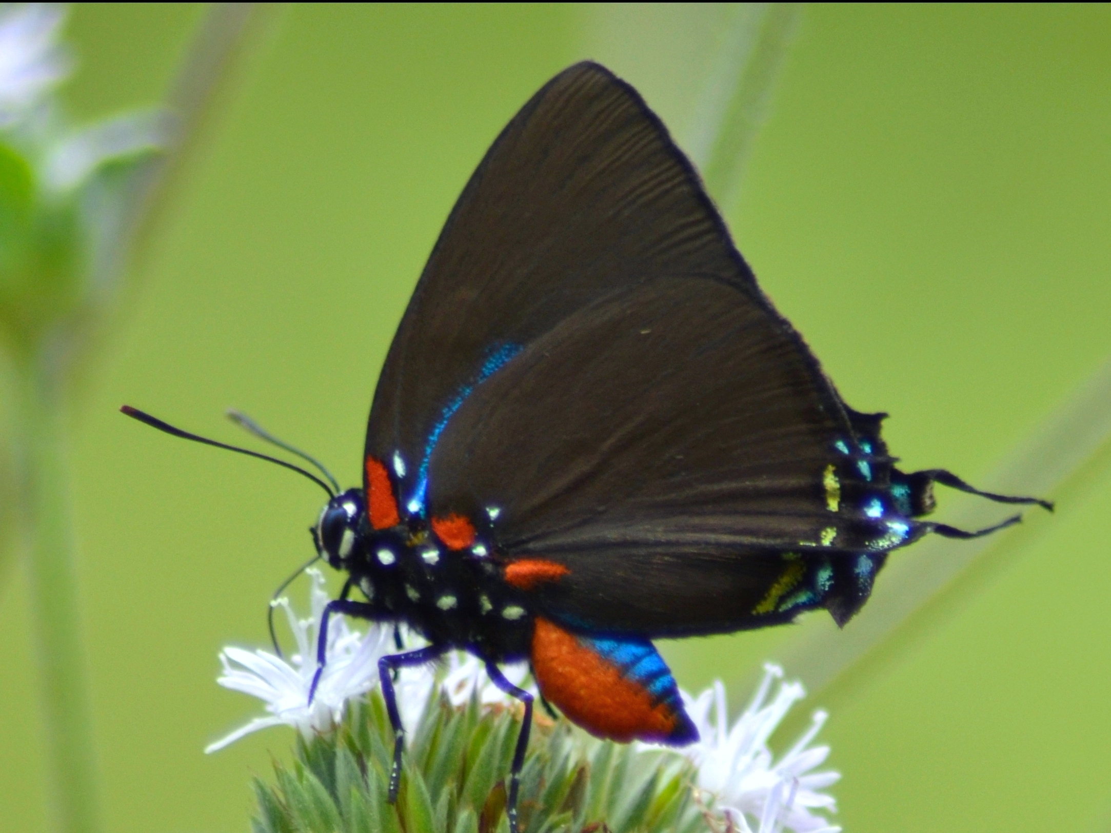 Atlides halesus, Alabama